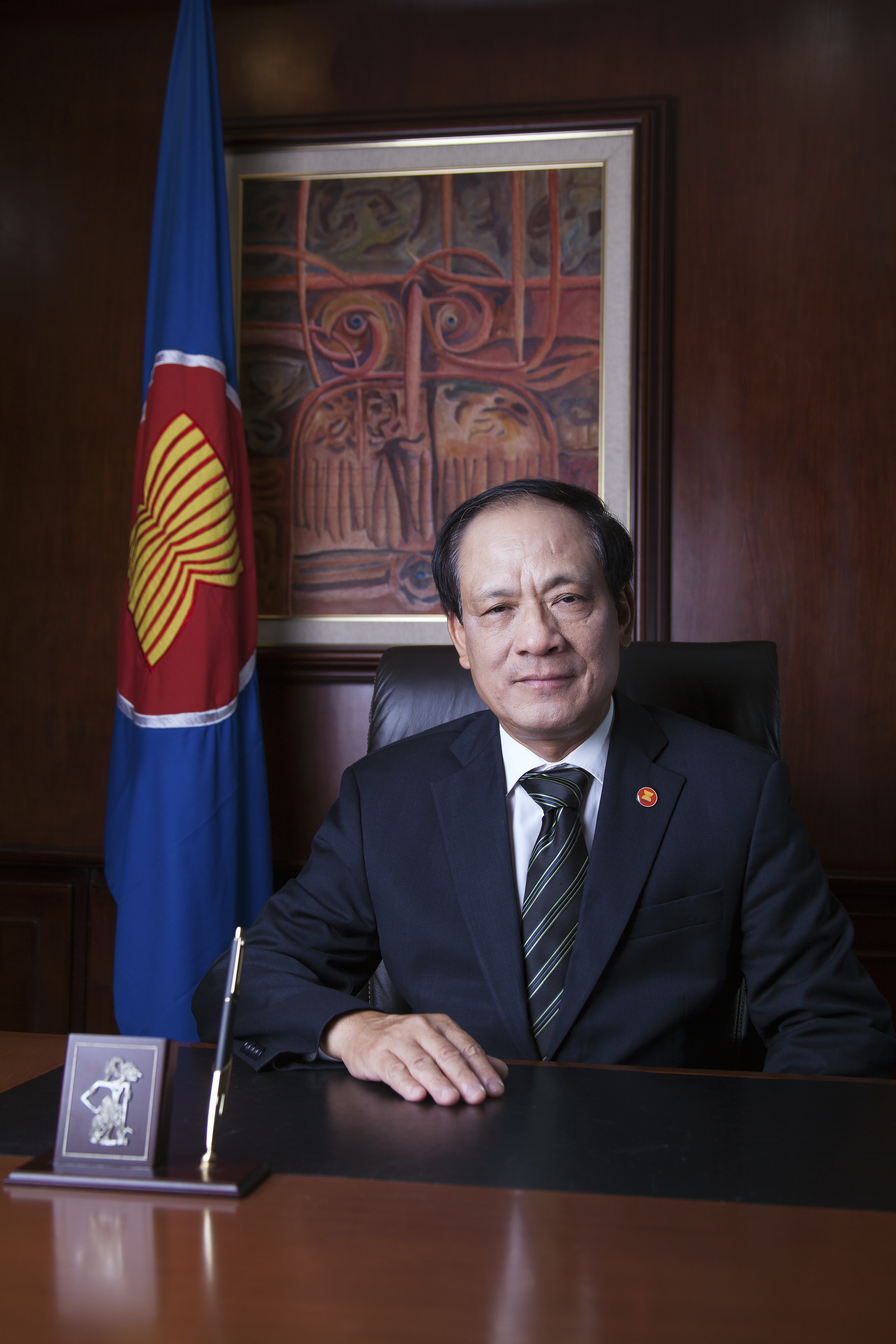 Le Luong Minh